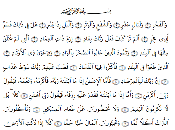 surah al fajr, the 89th sura of the holy quran.